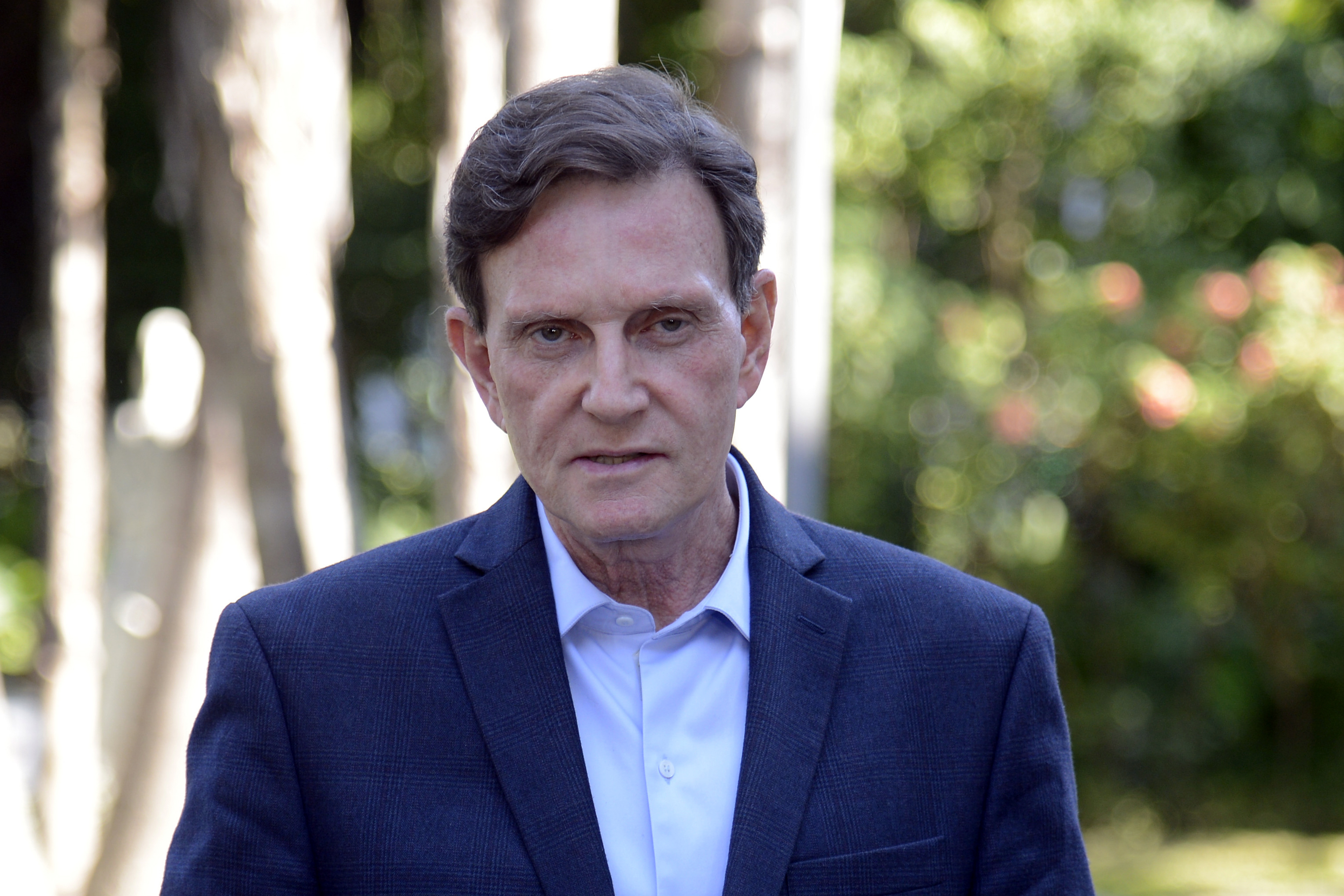 Rio de Janeiro - O prefeito do Rio de Janeiro, Marcelo Crivella durante entrevista coletiva sobre as manifestações dos taxistas (Tomaz Silva/Agência Brasil)